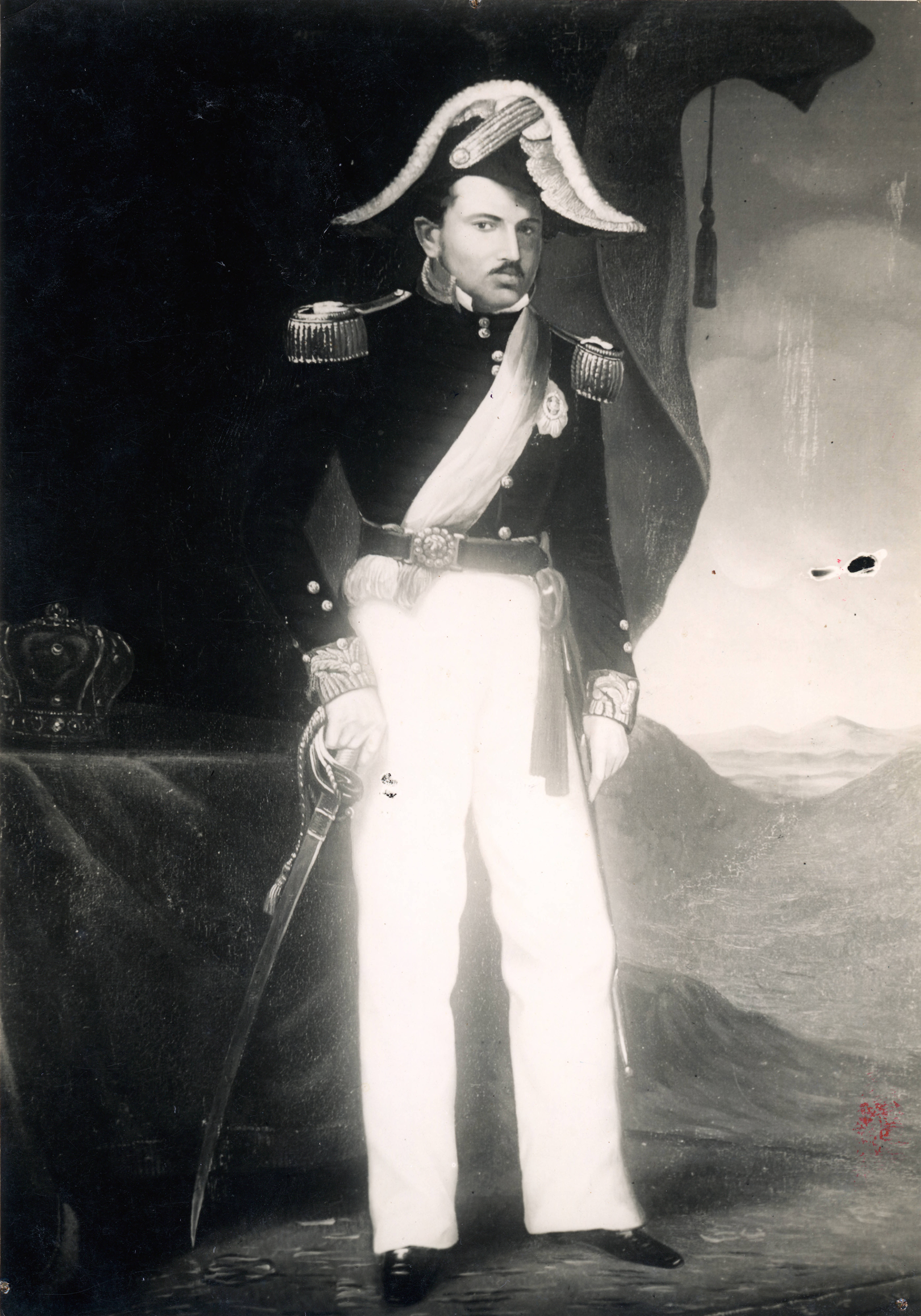 Portrait of Radama II by Wattinghouse, HST, executed shortly before the assassination of the King, or a copy of the original by Ramanankirahina. Photograph by Robert Lisan.